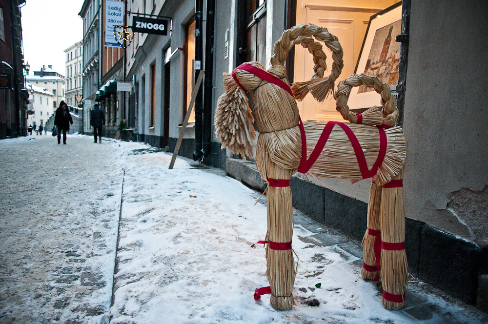 Yule goat on Österlånggatan in Gamla stan in Stockholm, Sweden